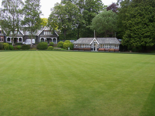 Keswick Bowls Club Keswick Bowls Club Fitz Park with the town museum and art gallery on Station Road